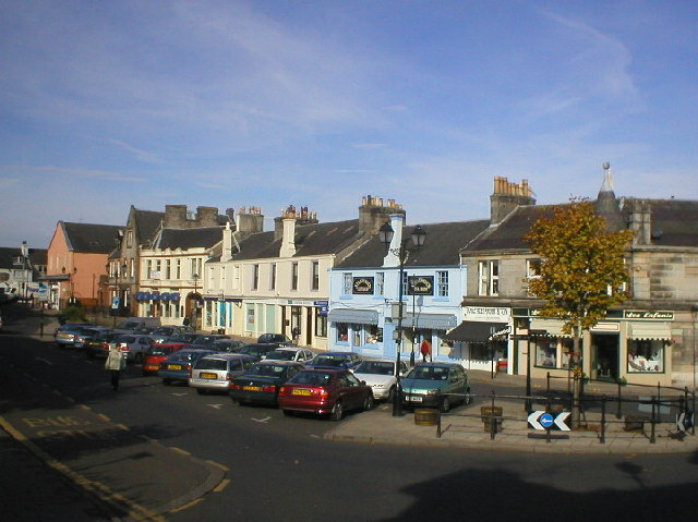 Colourful Buildings in Strathaven Town Centre.